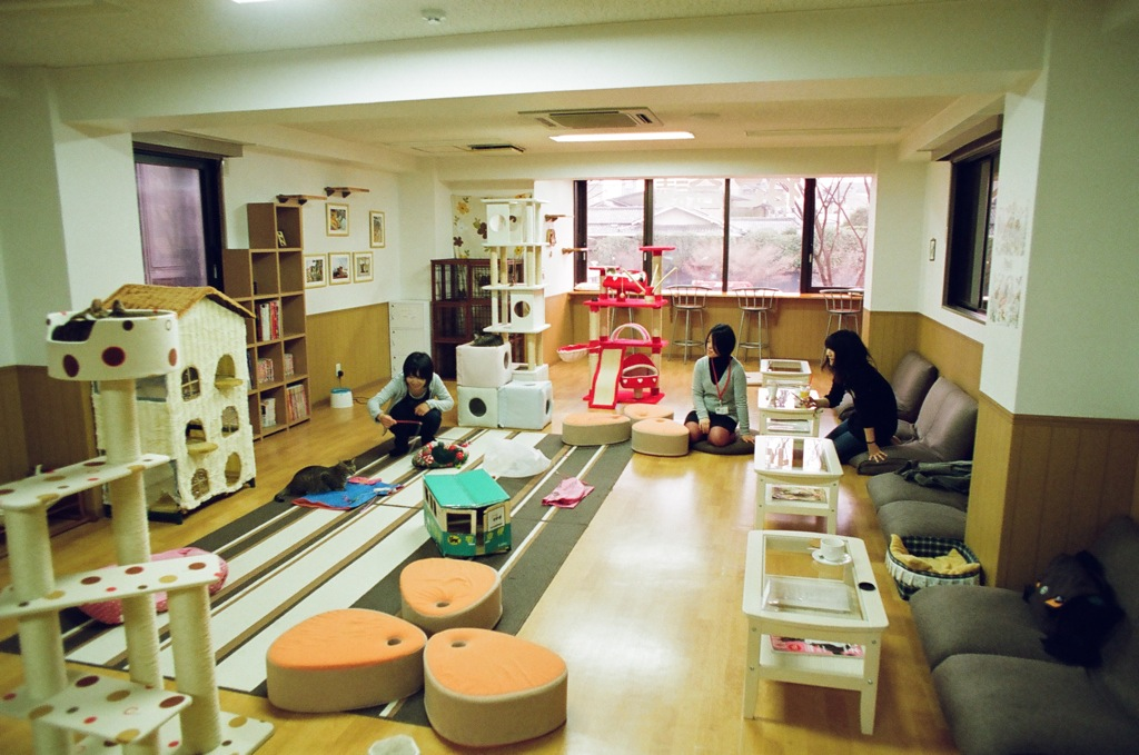 Nekokaigi, a small cat cafe in Kyoto.